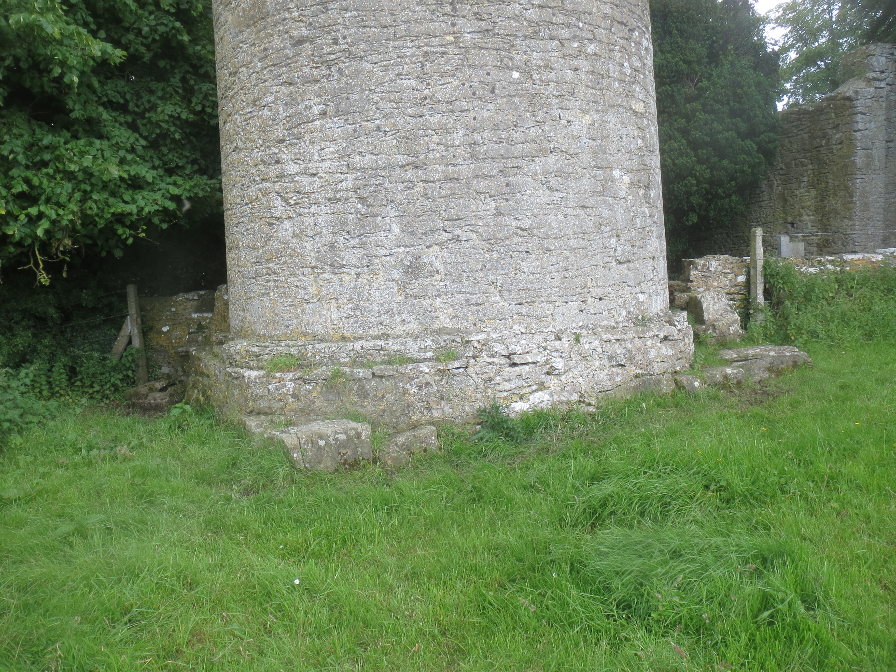 Base of Kilree Round Tower